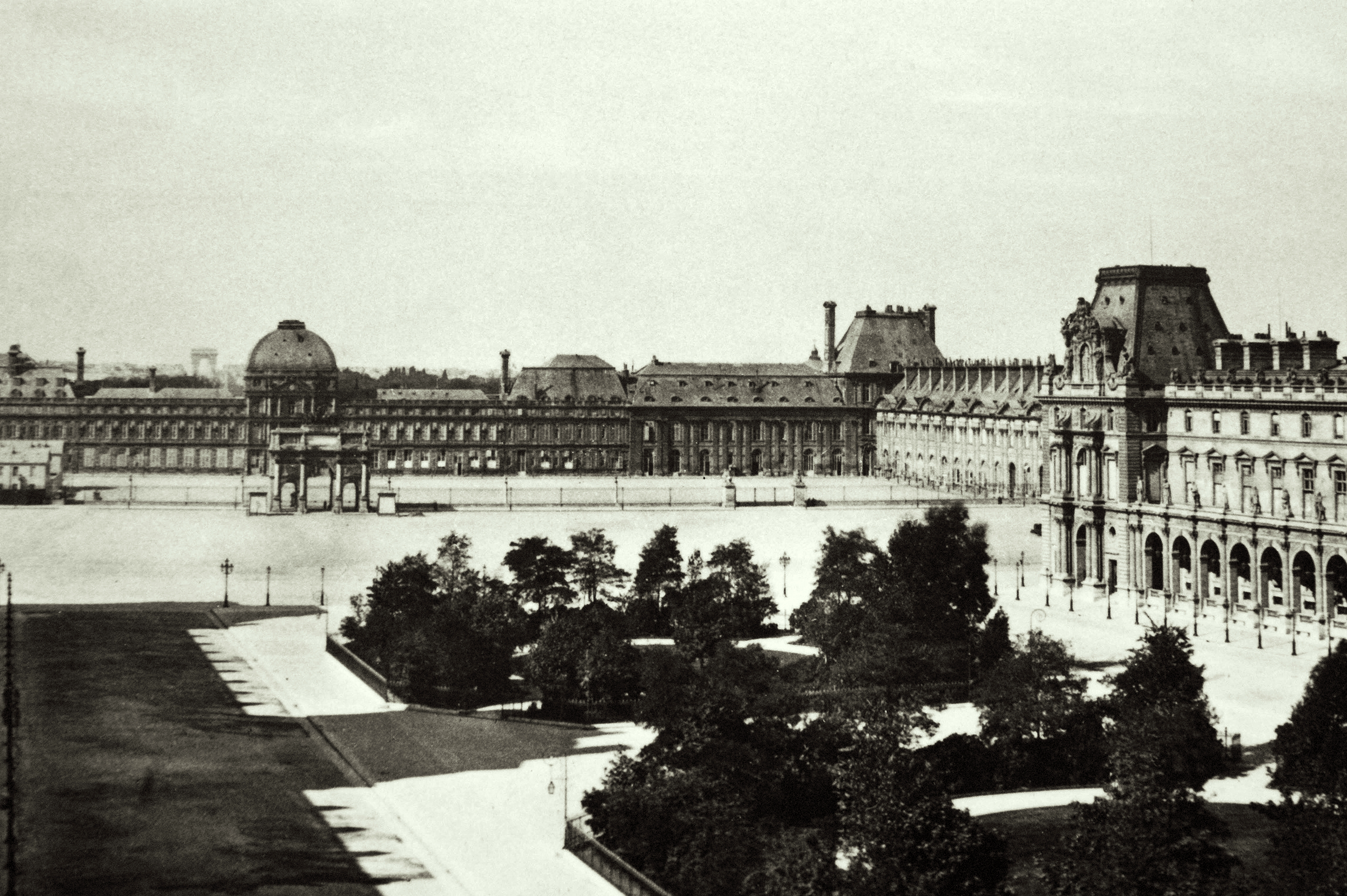 Tuileries Palace under the Second Empire. Destroyed by fire in 1871.